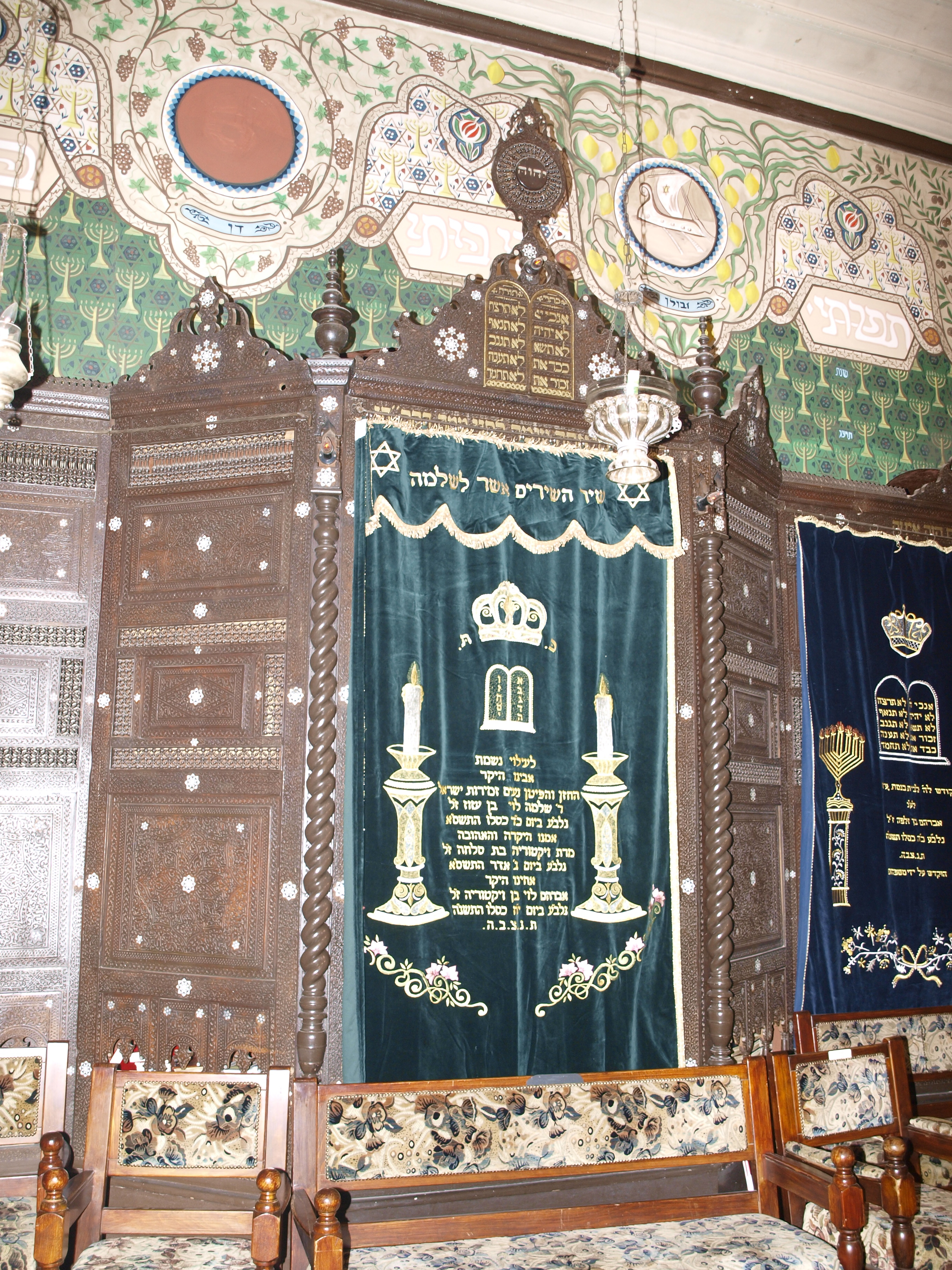 A'des synagogue, Jerusalem - the Hebrew initials כ ת stand for כתר תורה "Crown of Torah" (based on Mishnah, Avot 4:13).